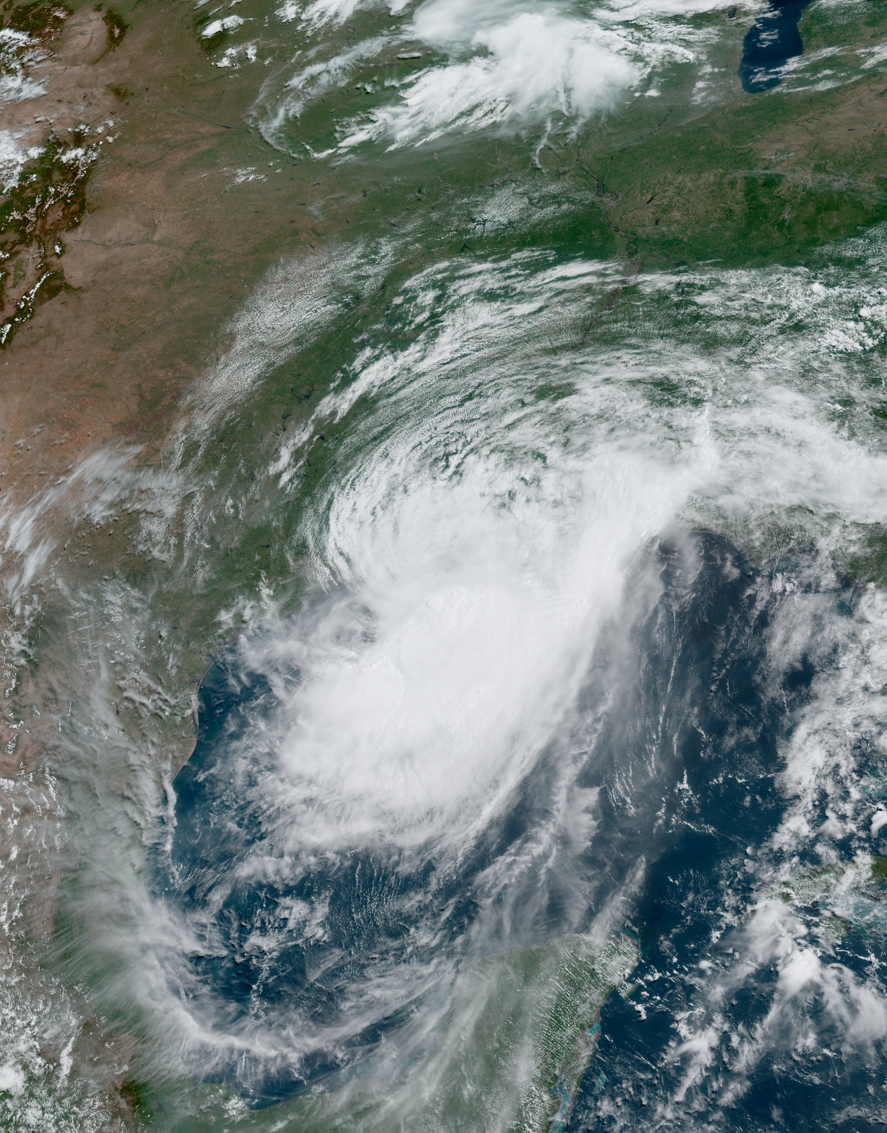 Hurricane Barry on July 13, 2019